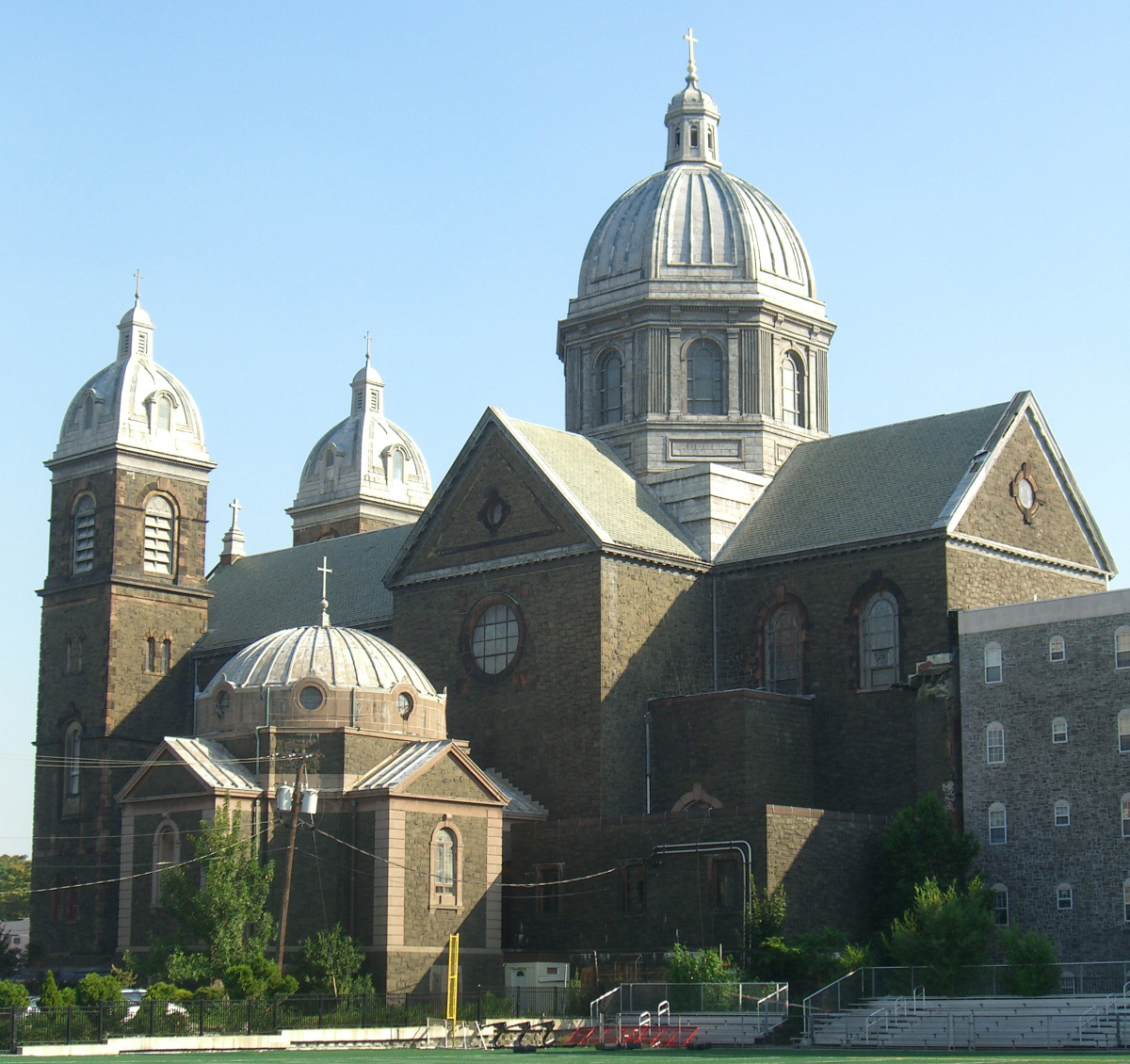 Monastery and Church of Saint Michael the Archangel in Union City, New Jersey. The church was formerly a Catholic church, but is now owned by a Korean Presbyterian parish. This photo was created by Luigi Novi. It is not in the public domain, and use of this file outside of the licensing terms is a copyright violation.